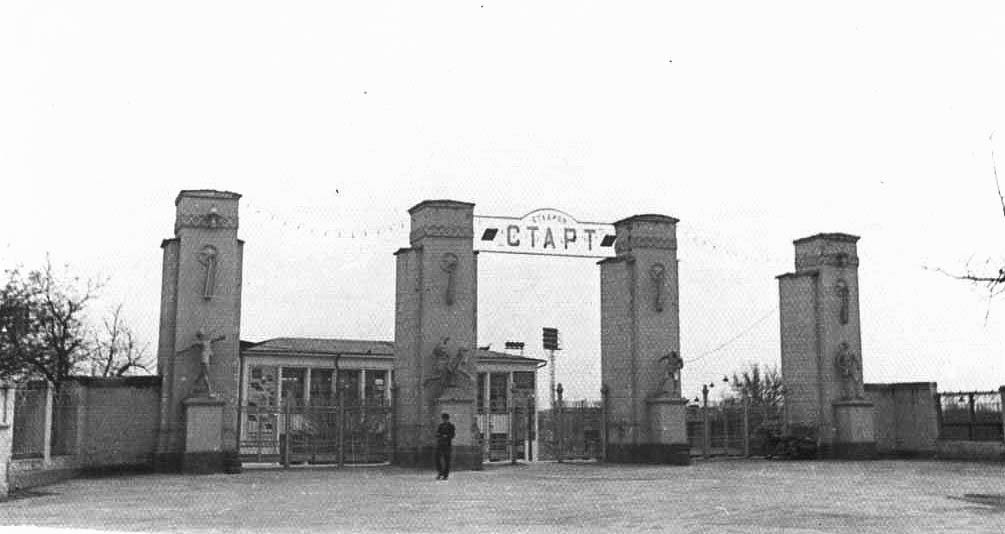 Stadium "Start",Tashkent 1967, currently renamed "Dinamo"